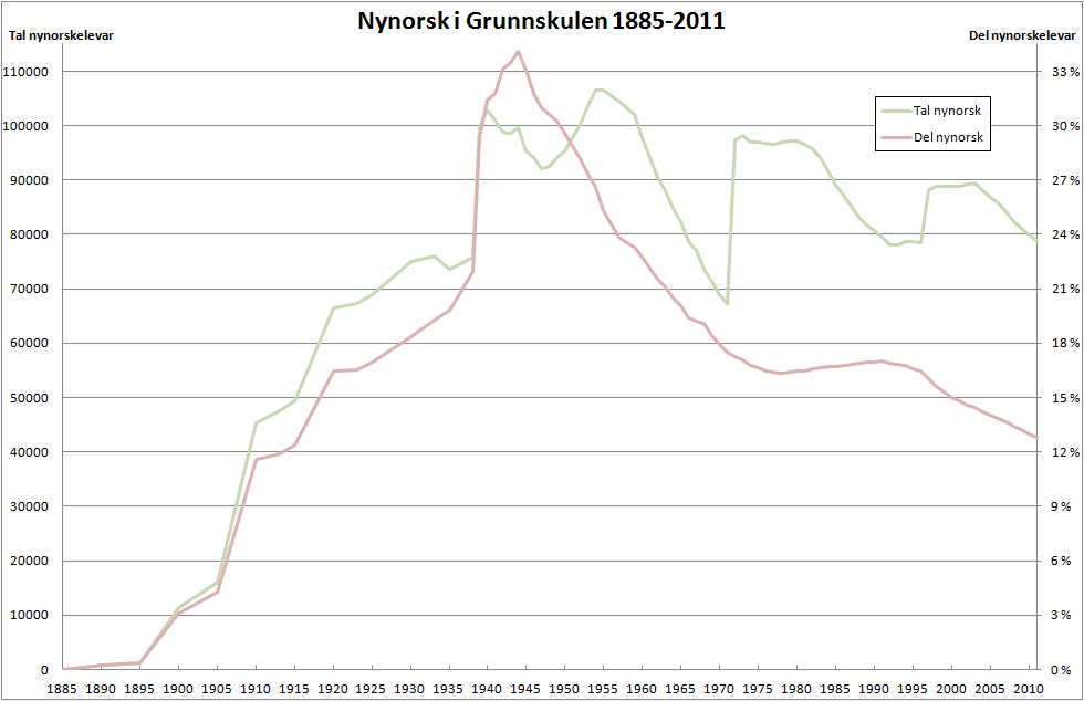 Norwegian Nynorsk in primary schools 1885-2011